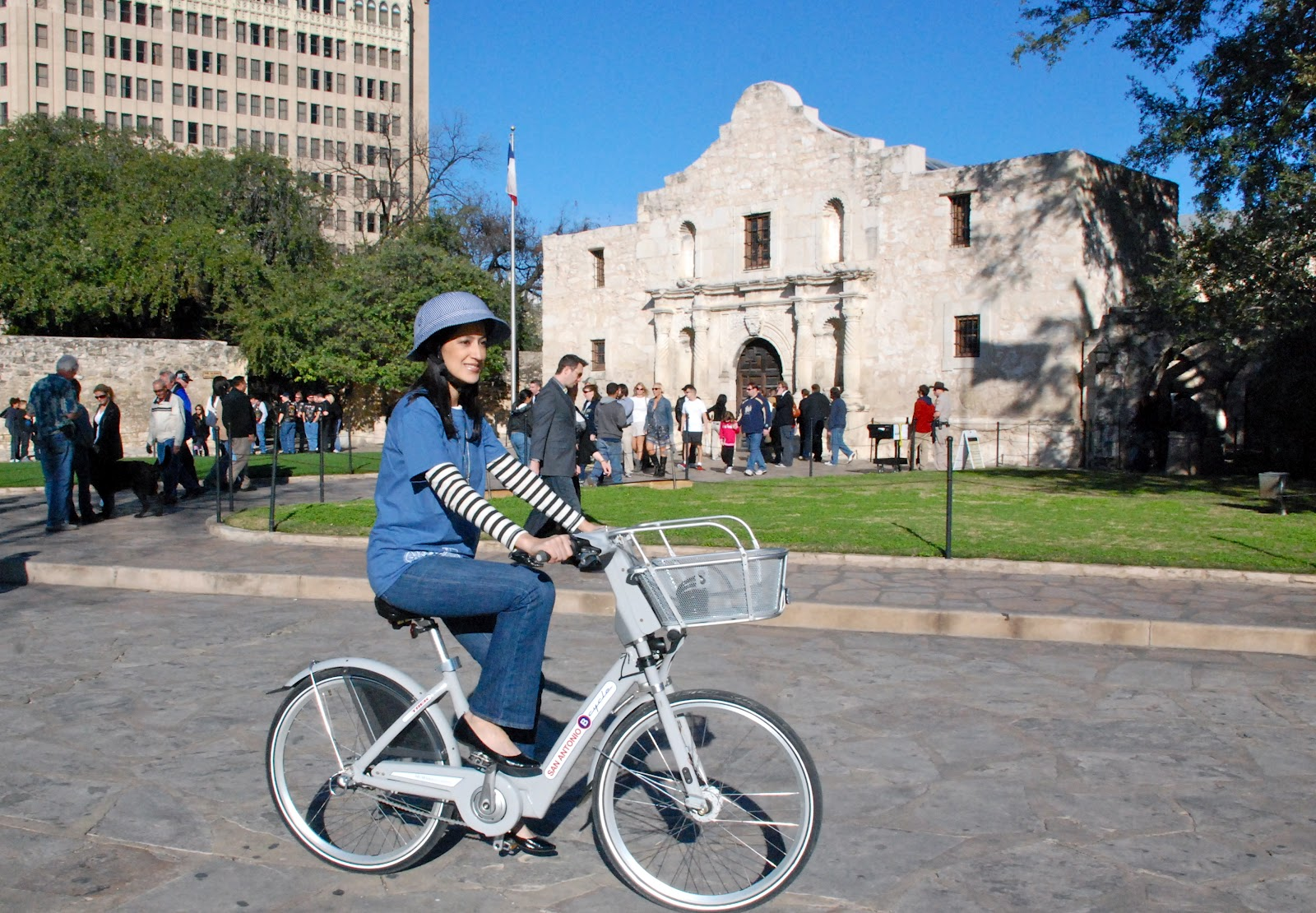 San Antonio B-cycle customer rides her B-cycle in front of the Alamo in downtown San Antonio.